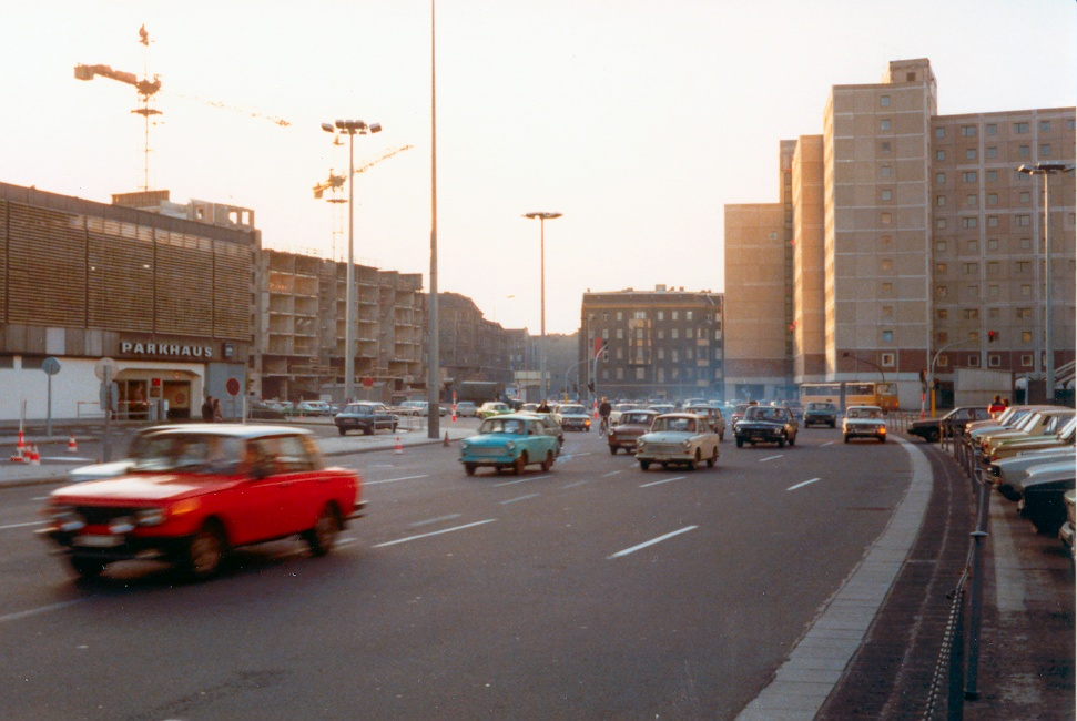 Grunerstraße in East Berlin, 1983. Mainly Trabants, a red Wartburg in the front, and a white Lada 2103.